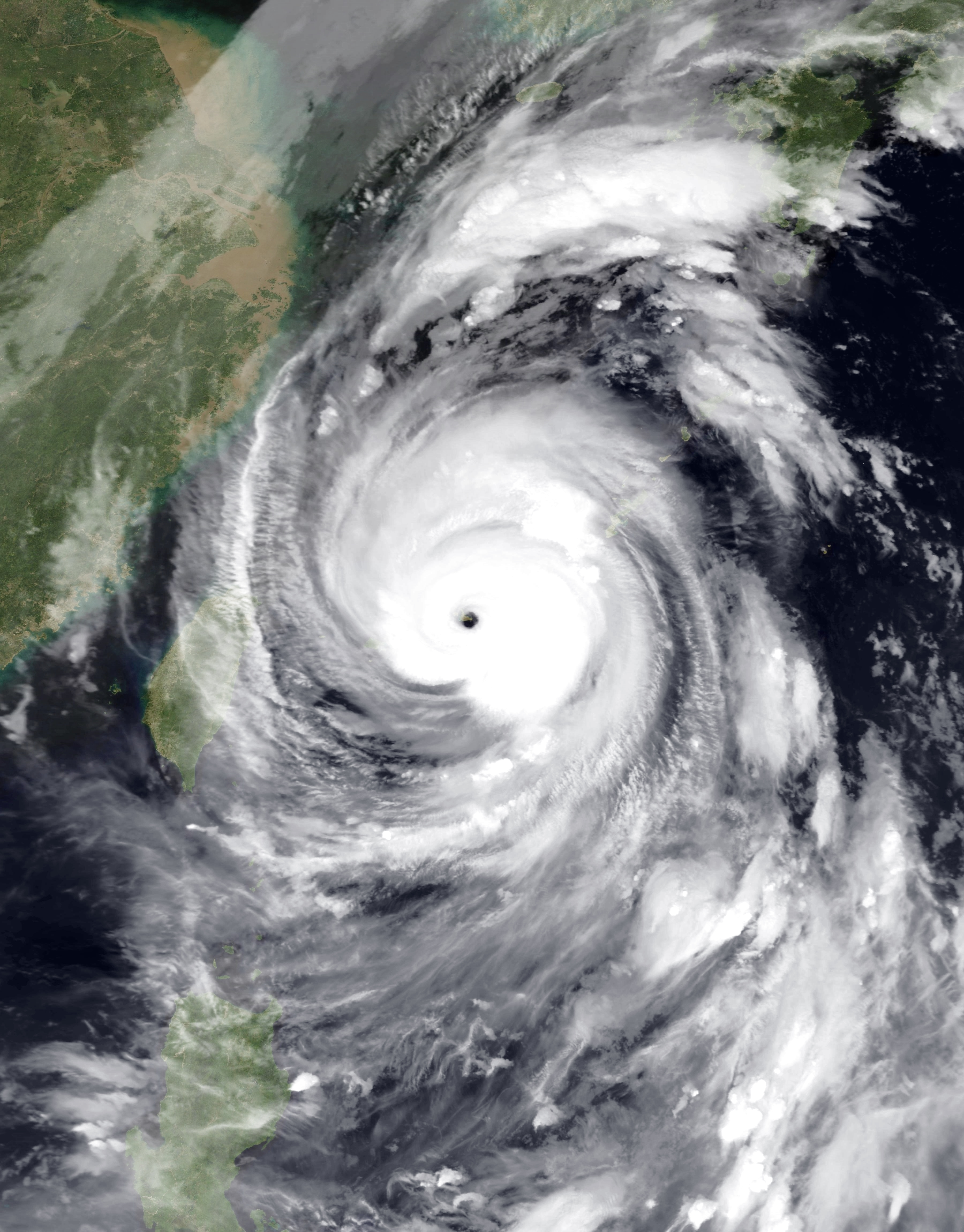 Typhoon Maemi on September 10, 2003